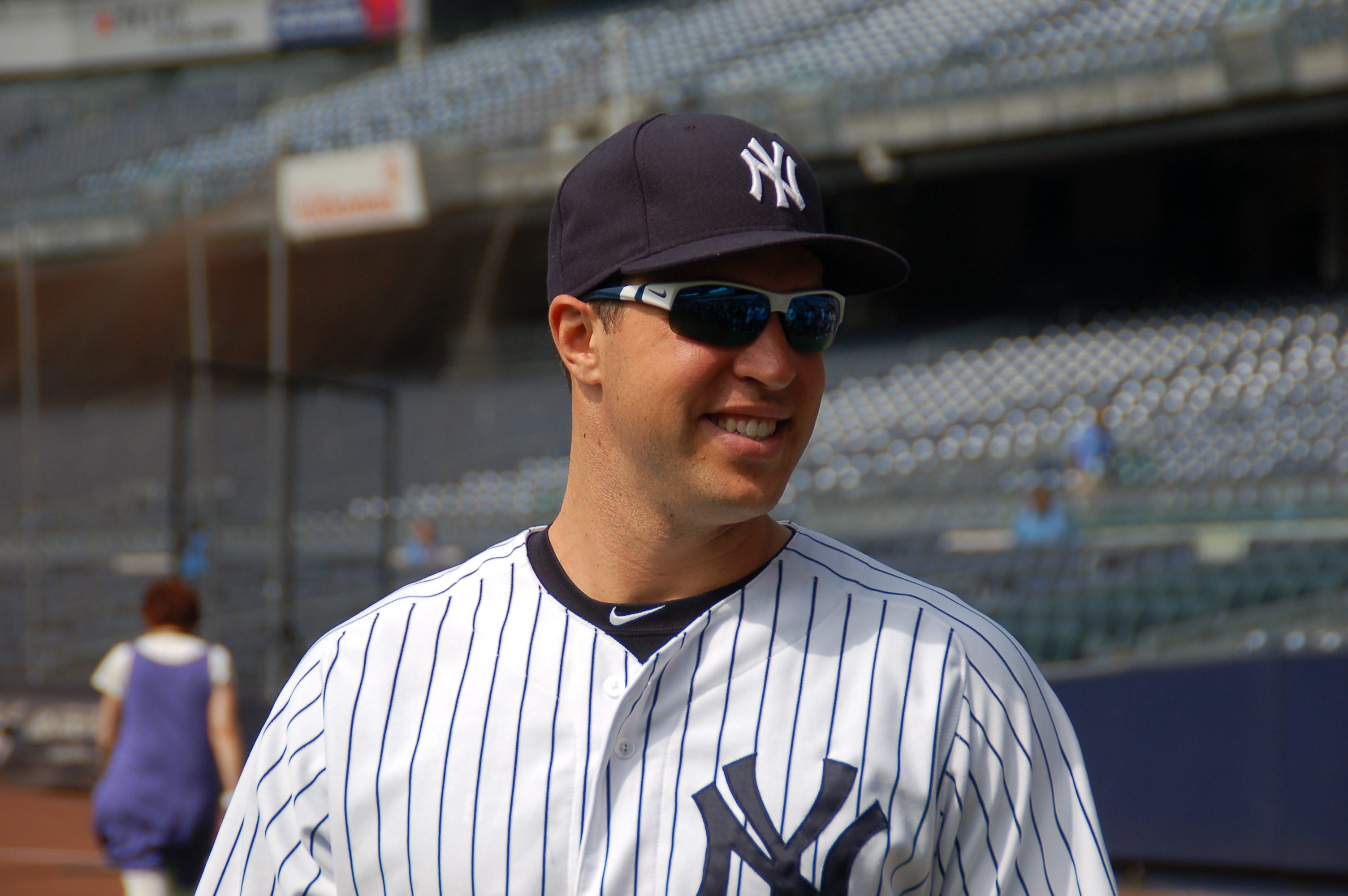 DSC_0092 New York Yankees first baseman Mark Teixeira, on the team's photo day at Yankee Stadium in Bronx, NY on August 5, 2012